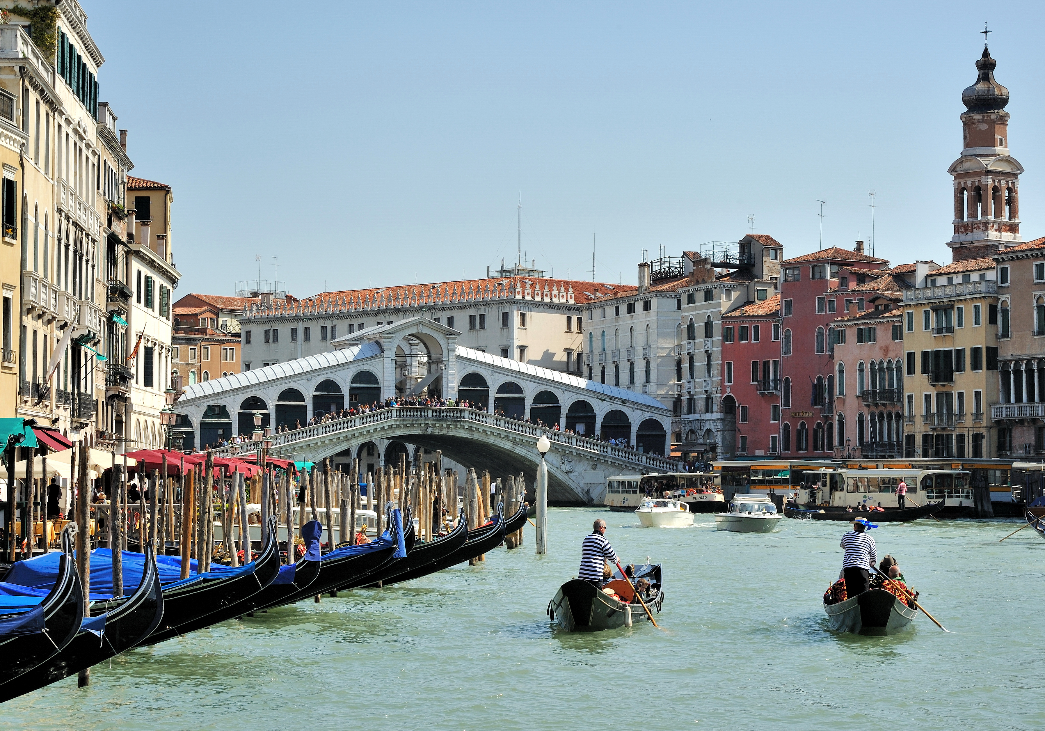 Two "sandolisti" (sandal is a typical boat in Venice) pull out with clients on board from a row of gondolas on the Grand Canal near Rialto Bridge.